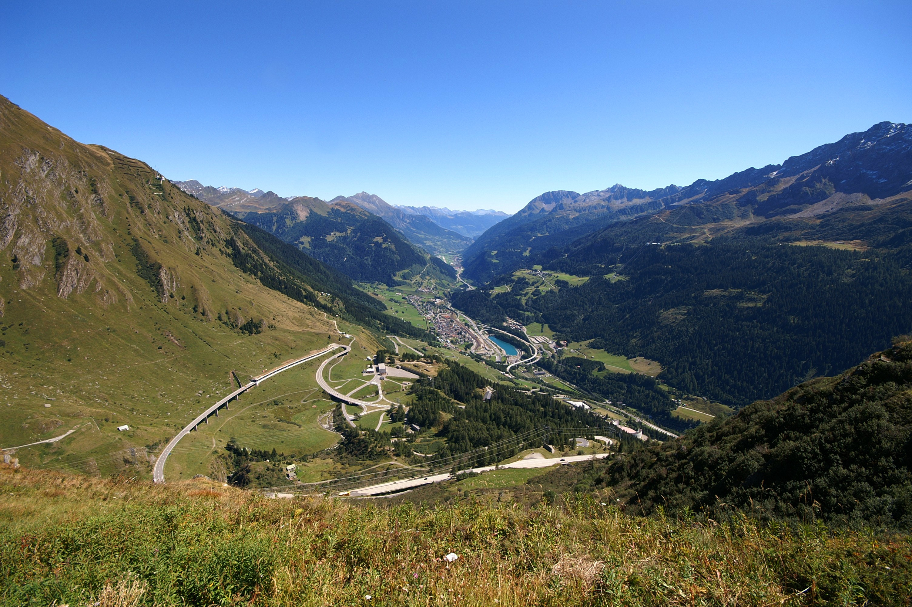 South slope of the pass of the San Gottardo - Ticino - Switzerland